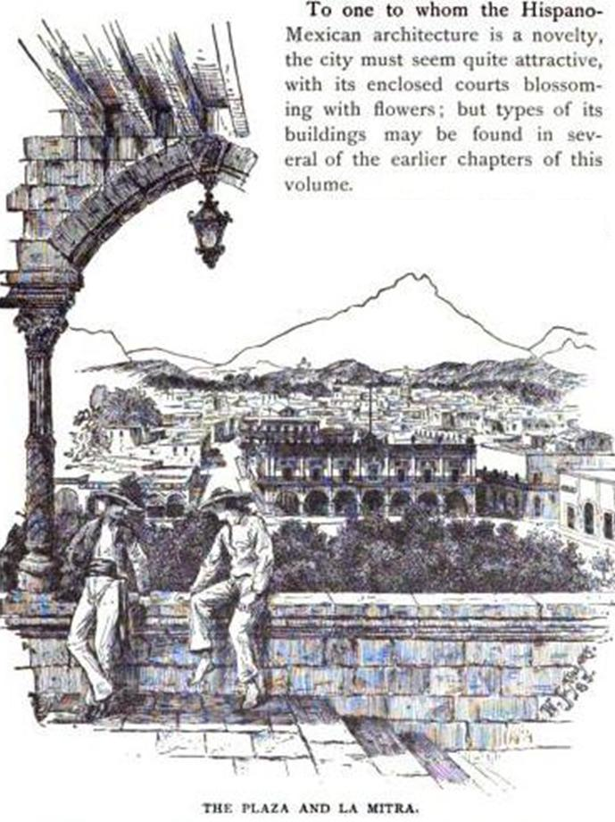 From “Travels in Mexico and Life Among the Mexicans” by Frederick Albion Ober. Published by Estes & Lauriat, 1884.